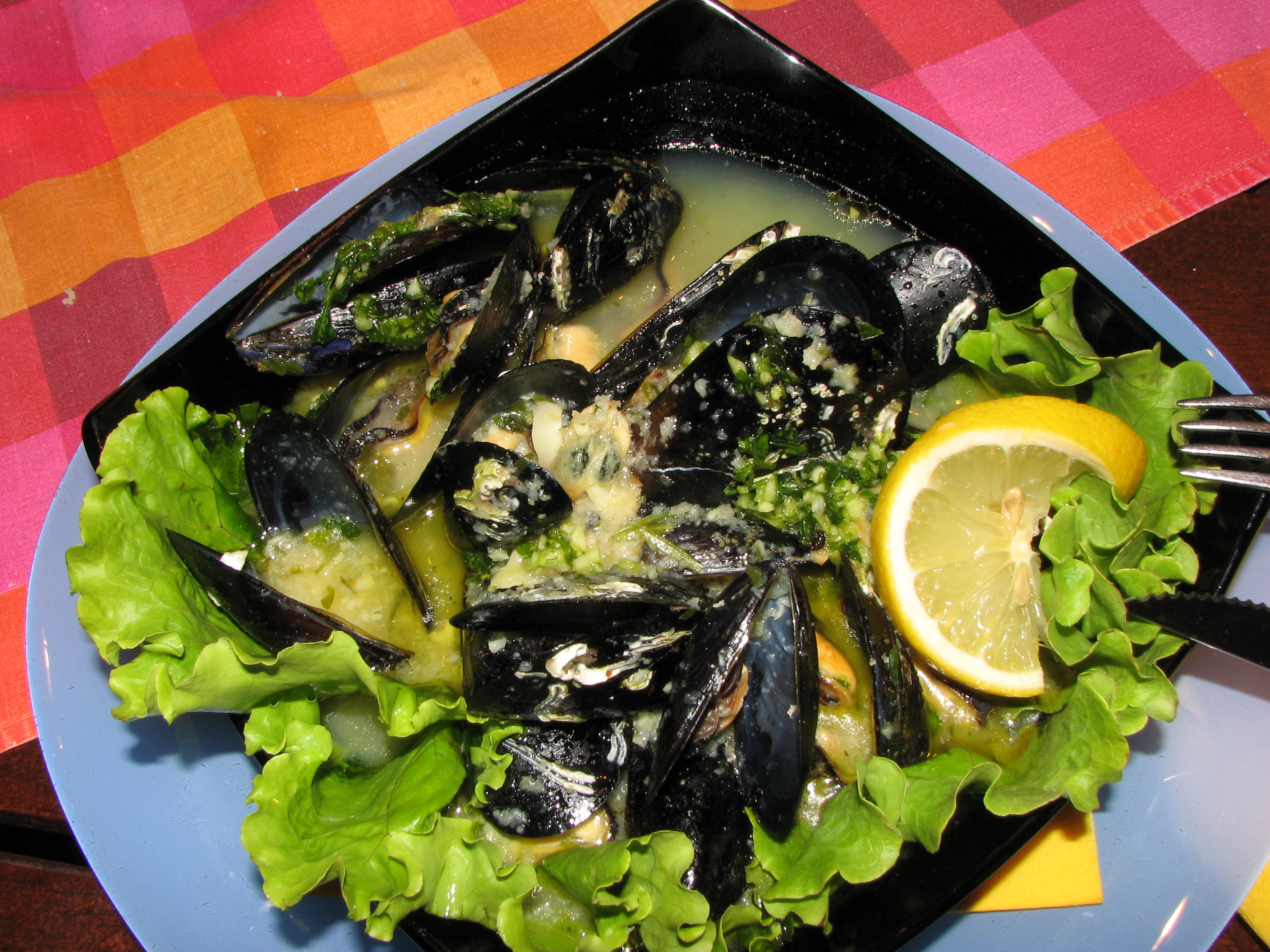 Boiled blue mussels in restaurant in Makarska, Croatia.